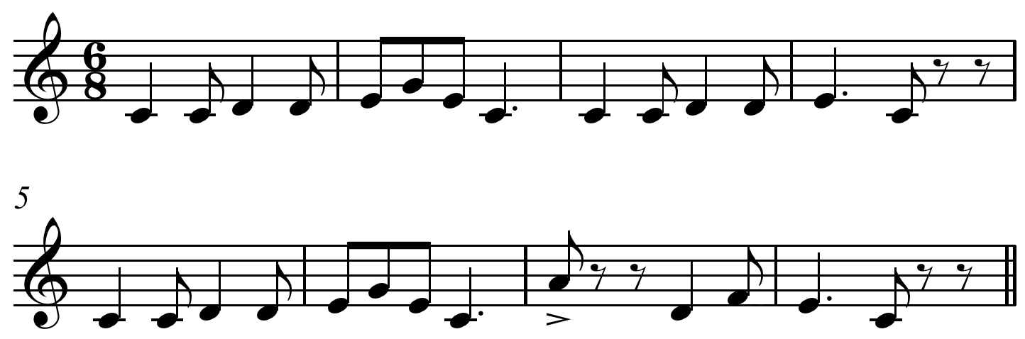 Pop Goes the Weasel melody correction